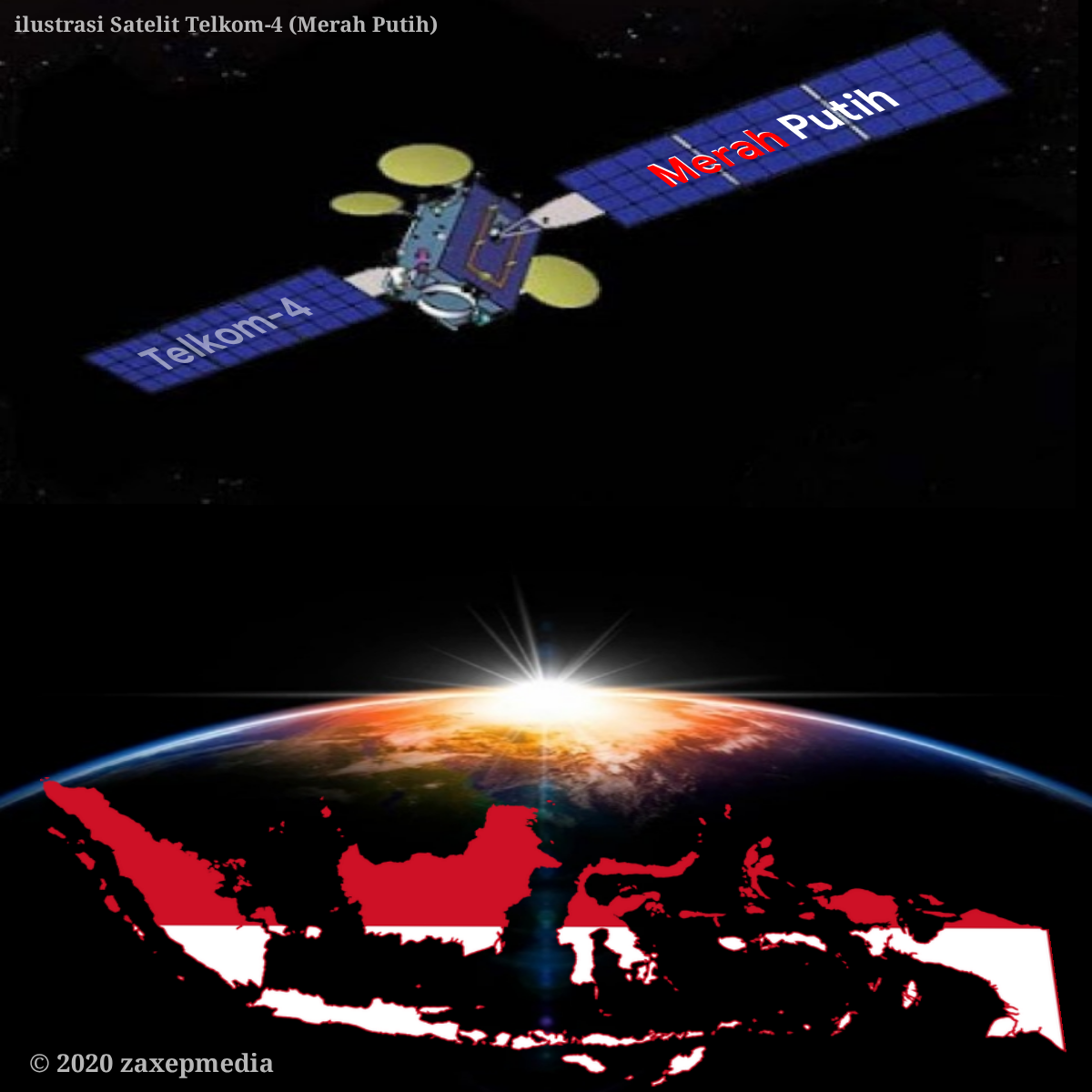 The Telkom-4 (Merah Putih) satellite was launched on August 7, 2018 and orbits 108°E above the Indonesian sky